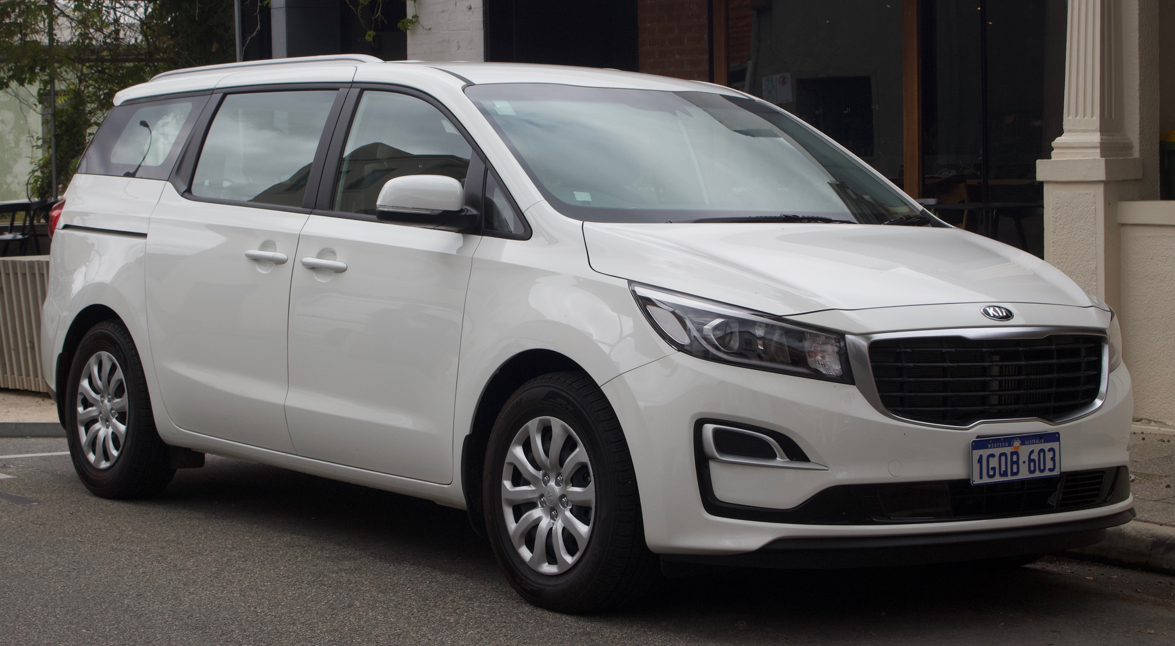 2018 Kia Carnival (YP MY19) S van. Photographed in Fremantle, Western Australia, Australia.